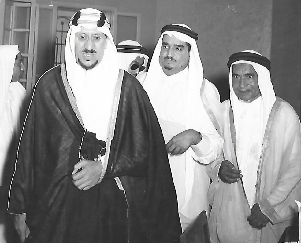 Abdelmalik Benali with King Saud and Prince Fahd